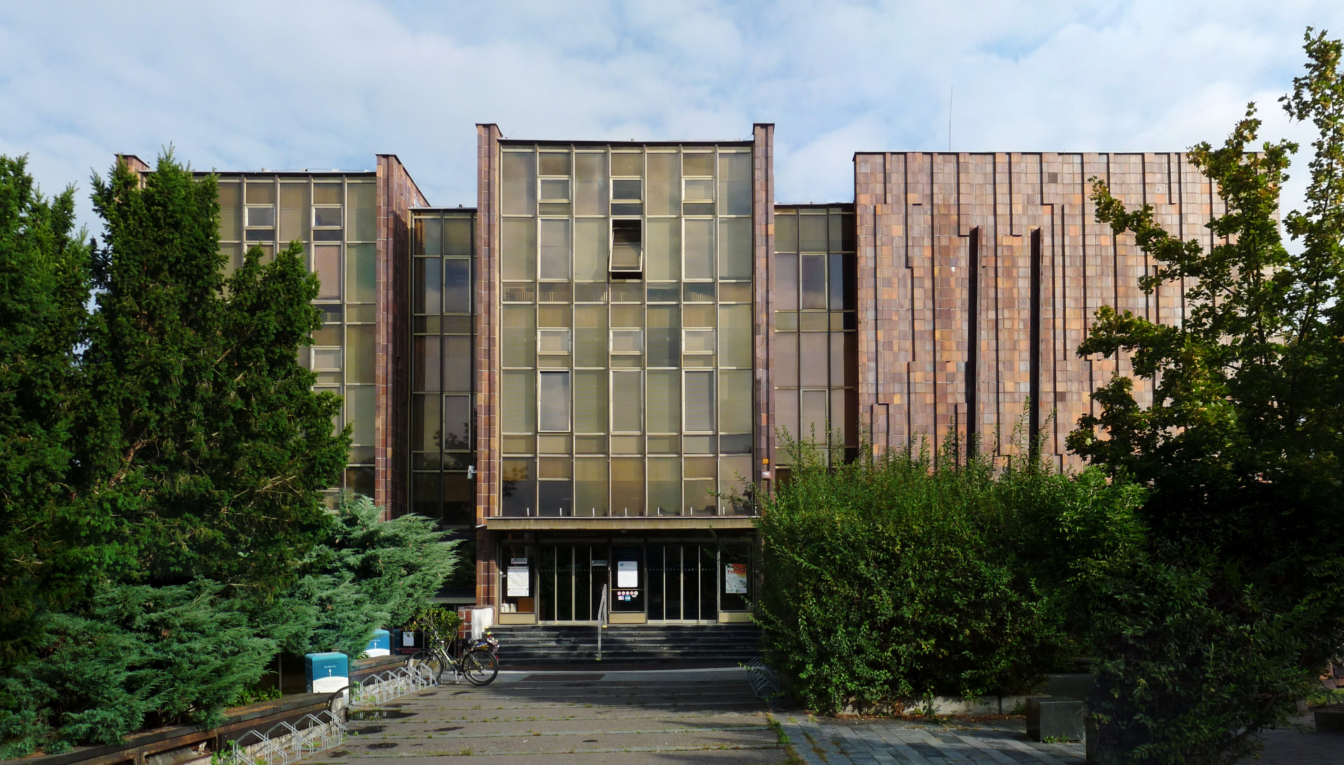 The Research Library of South Bohemia in the city of České Budějovice, South Bohemian Region, Czech Republic - its main building in Lidická Street.